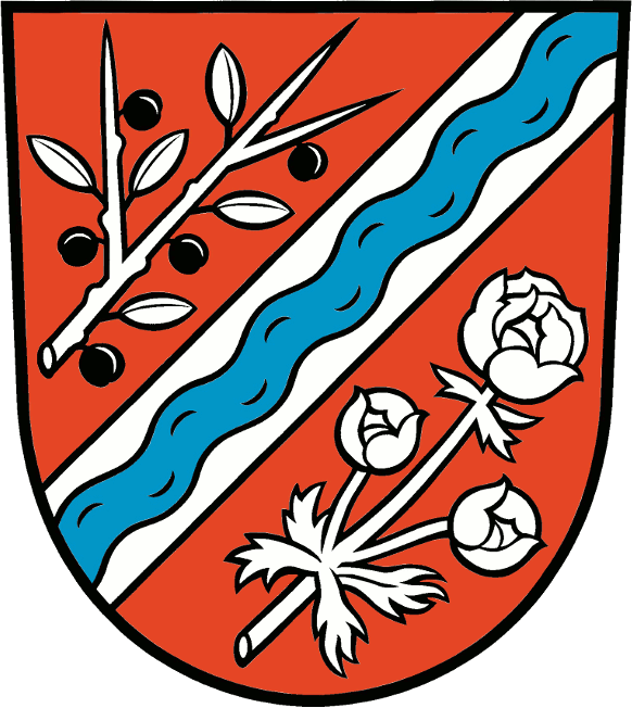 Coat of arms of the German municipality of Turnow-Preilack.